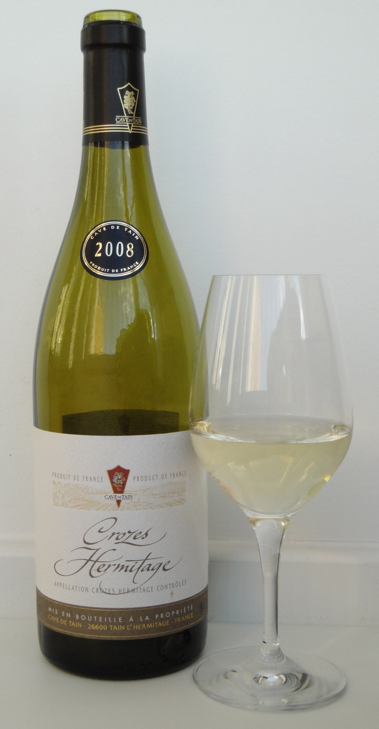 Cave de Tain Crozes-Hermitage Blanc 2008